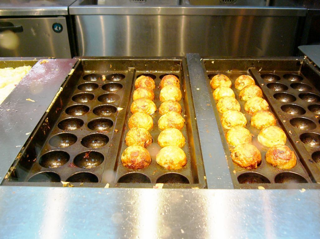 Takoyaki shop tsukiji gindako（築地銀だこ）